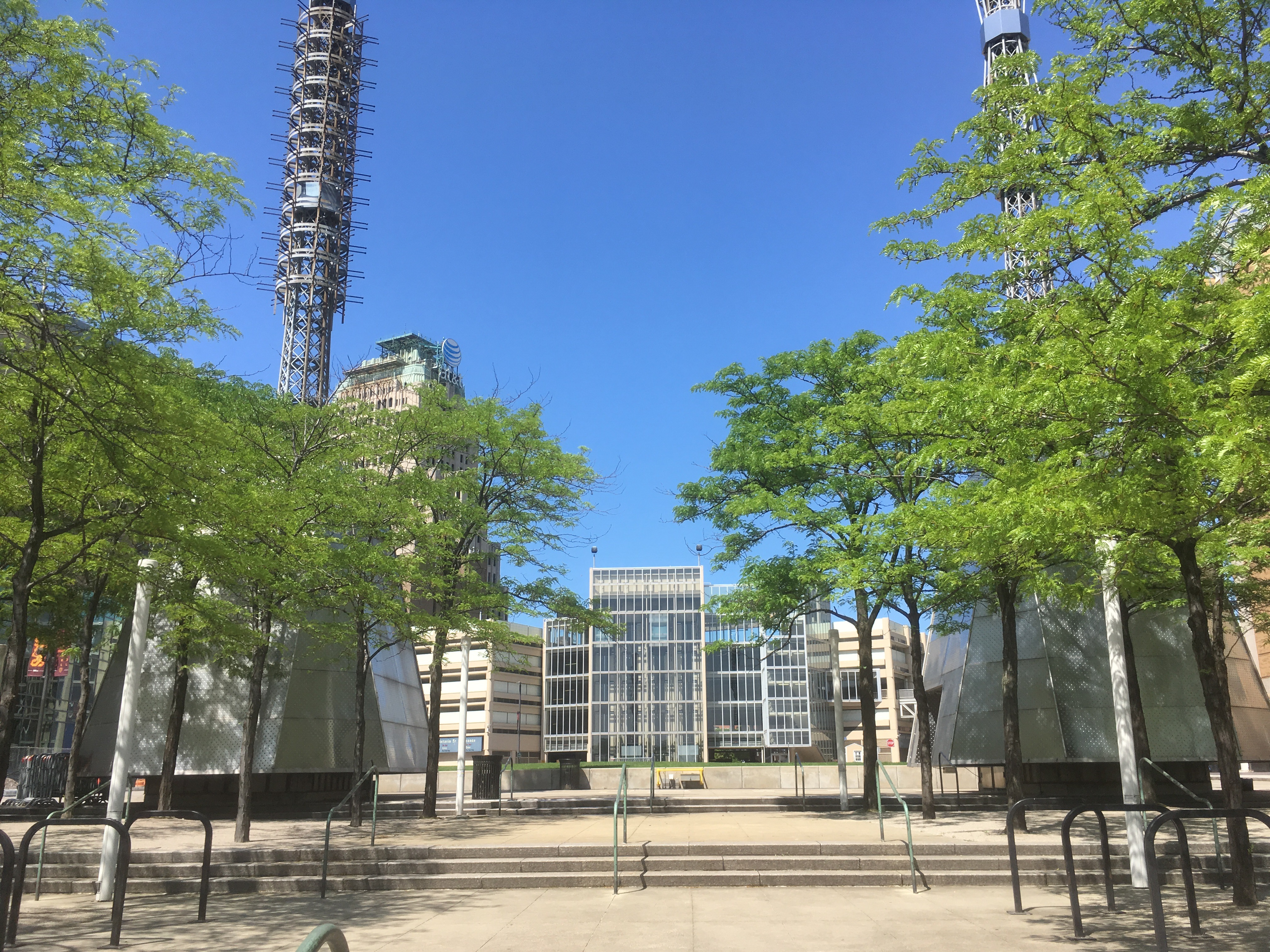 Gateway Sports and Entertainment Complex, Cleveland